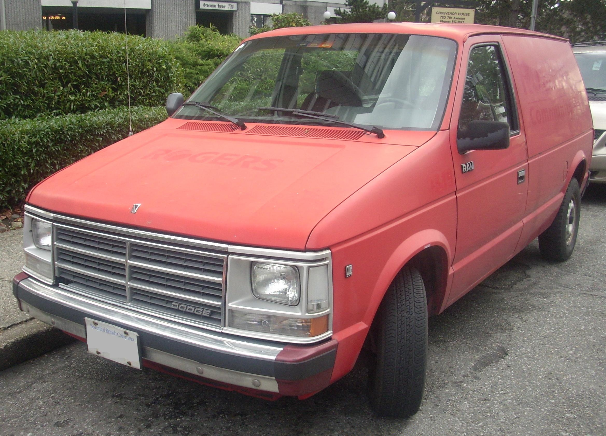 1987-1988 Dodge Ram Caravan Rogers Cable photographed in New Westminster, British Coumbia, Canada.